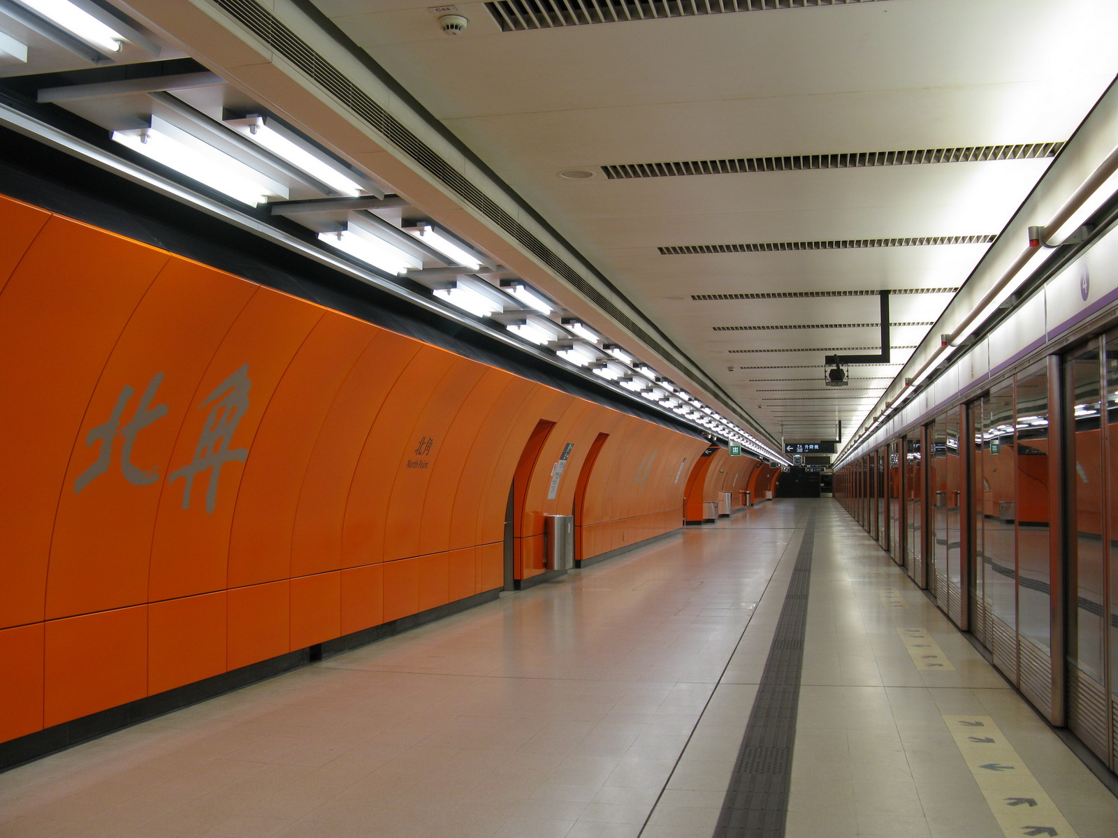 Tseung Kwan O Line platform of North Point station 中文（香港）: 北角站將軍澳綫月台